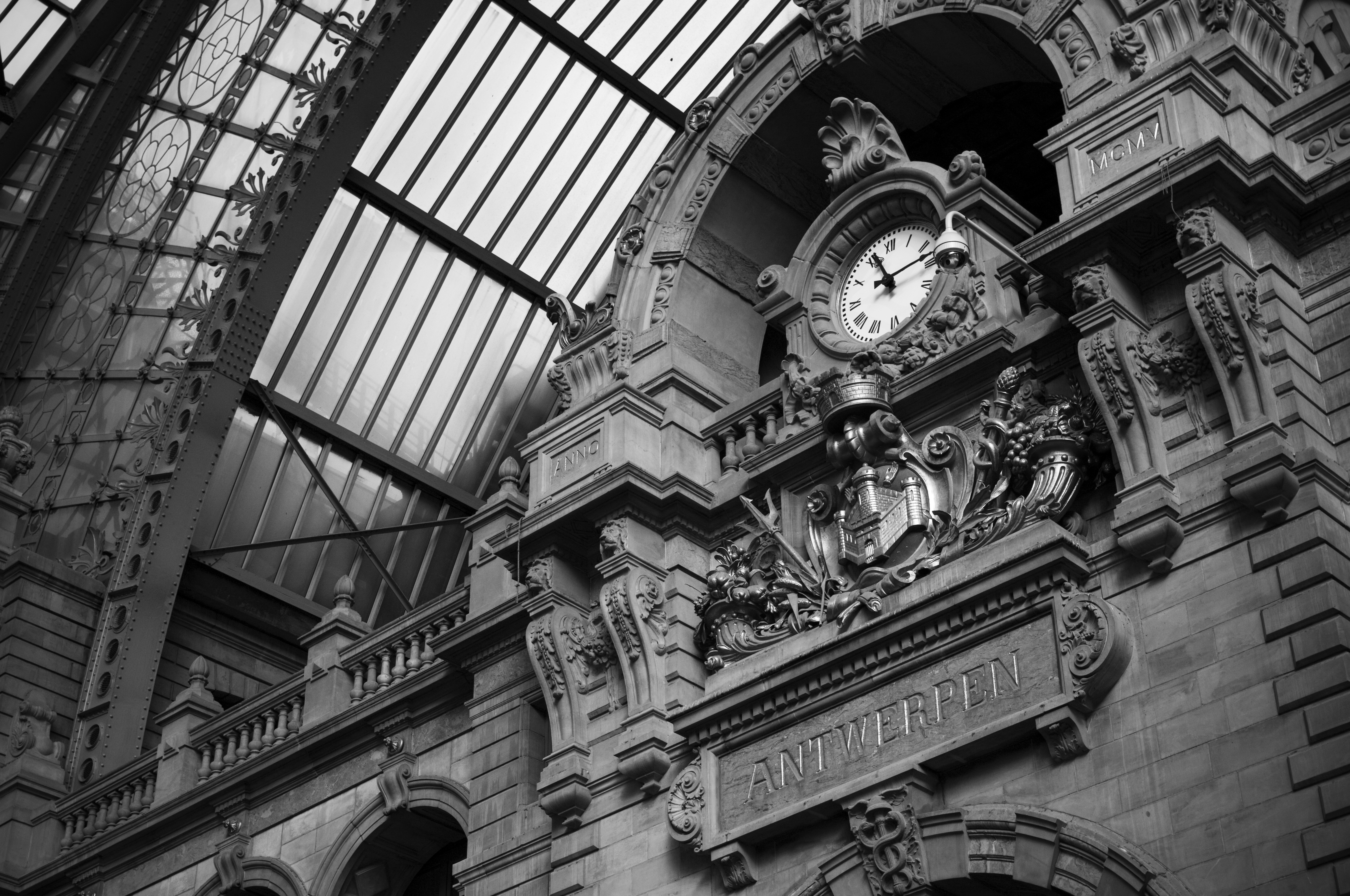 Antwerp Central station in Belgium. It was taken with a Pentax K20D.